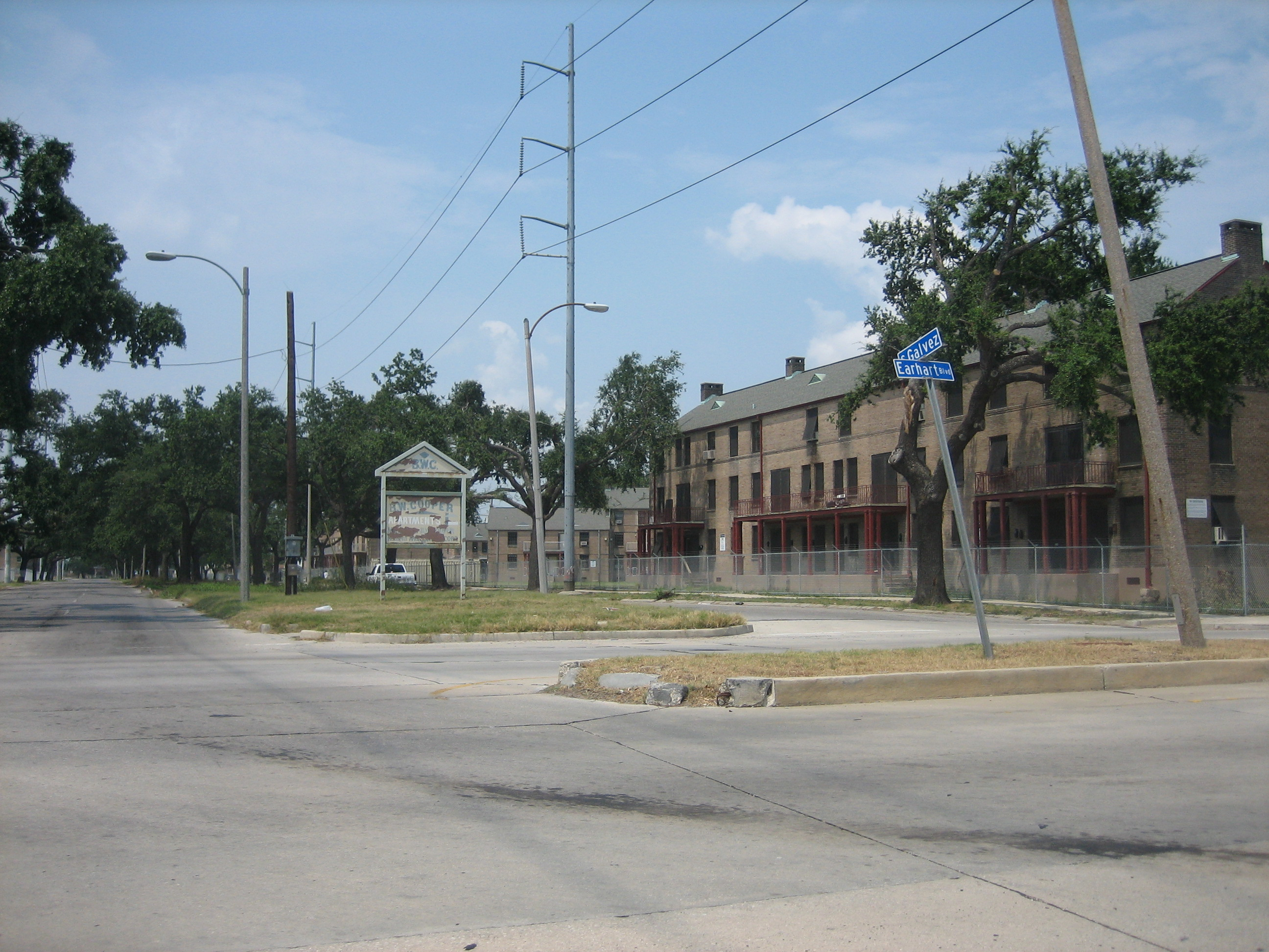 New Orleans: Part of the B. W. Cooper Housing Projects, seen from corner of Earhart and Galvez. At time of photo, closed since the flooding of the Hurricane Katrina levee failures the previous year.